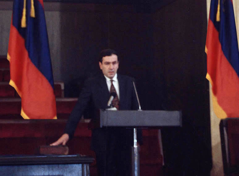 Photo Larama Film Matyan Ankakhutyan